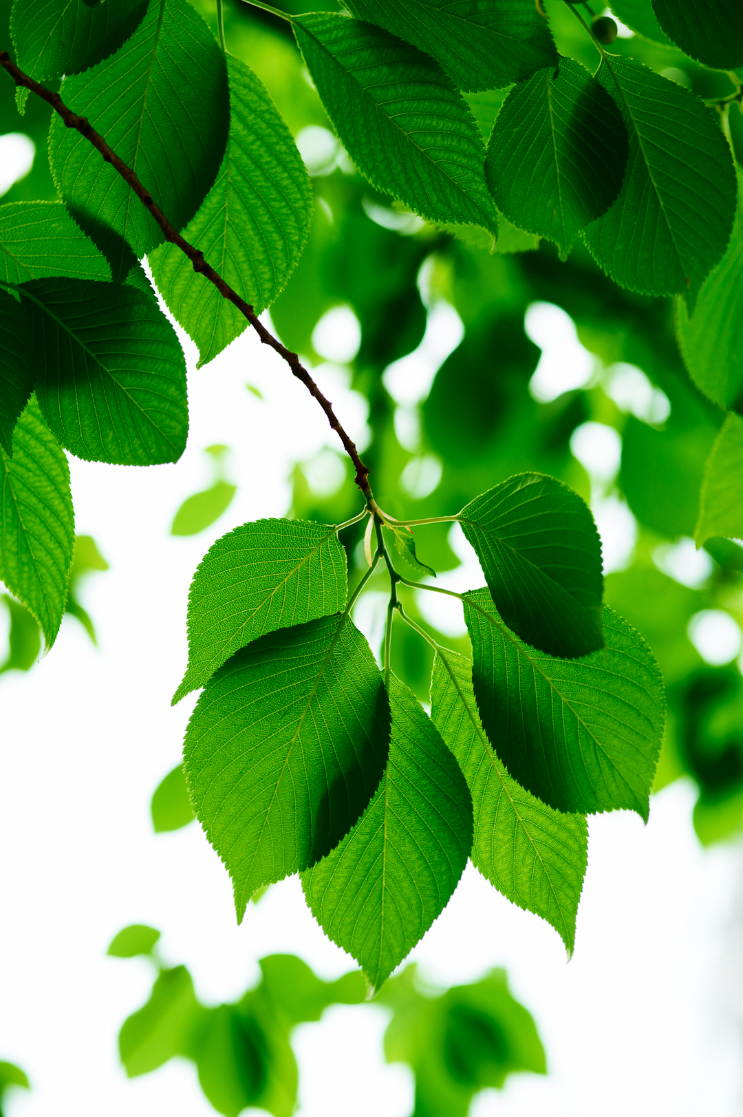 (no relevant description at source)